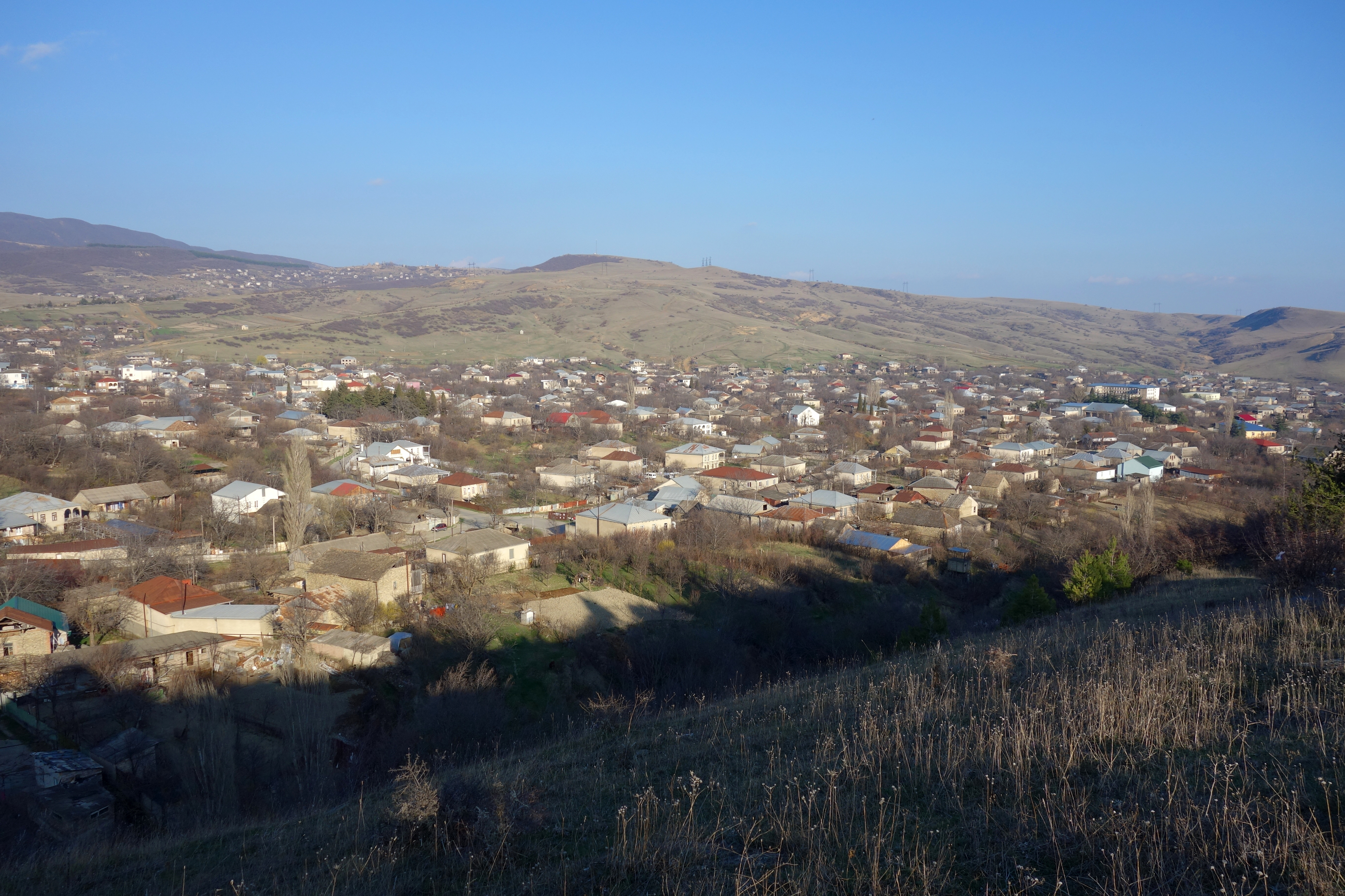 Martkopi, Kvemo Kartli, Georgia